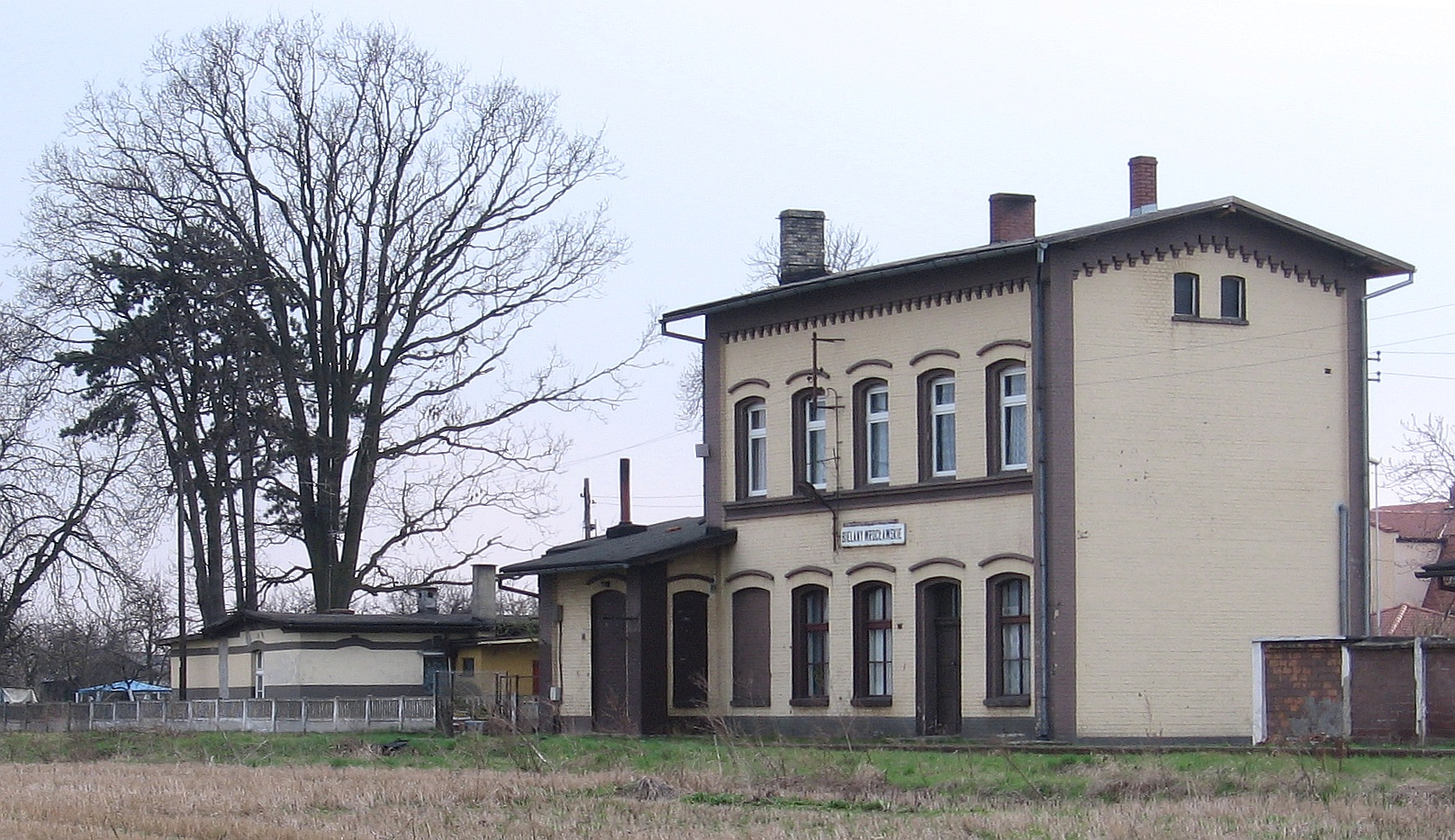 Railway station in Bielany Wrocławskie south of Wrocław, Poland.